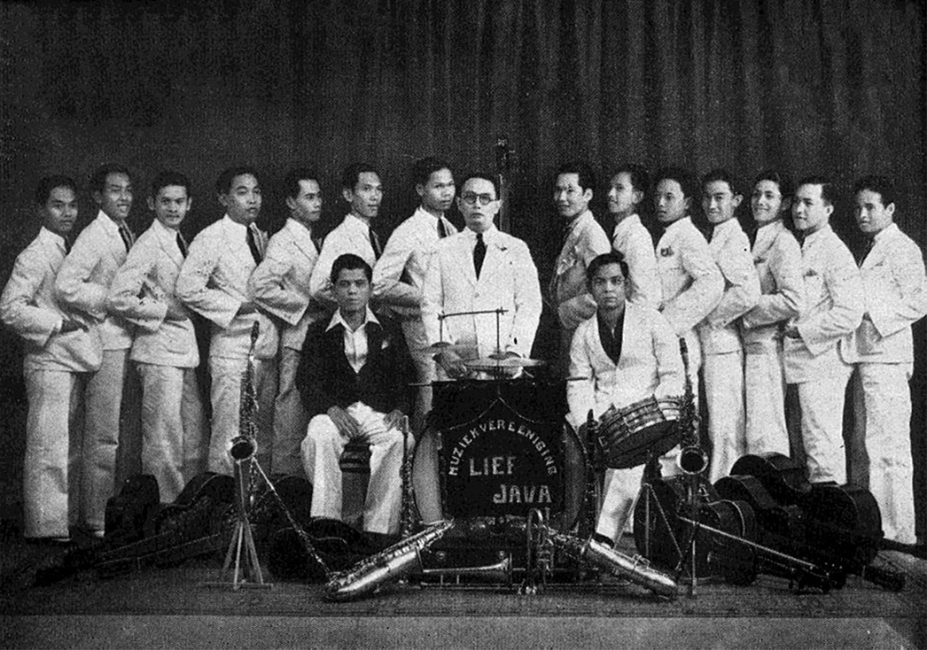 The keroncong division of Lief Java orchestra